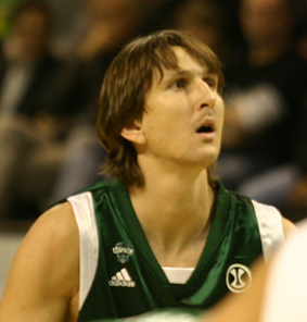 Photo de Laurent Foirest à Villeurbanne